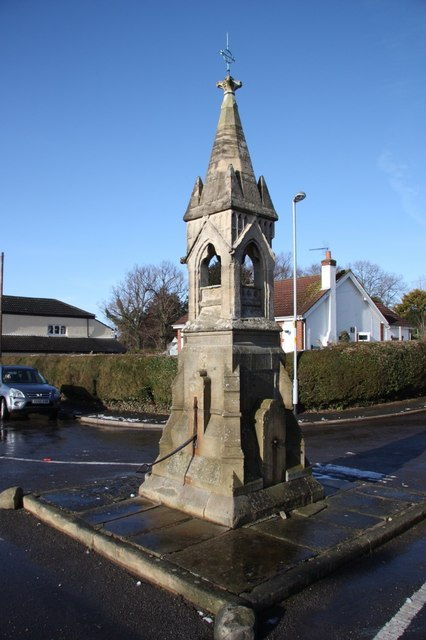 Legbourne village pump Ornate, stone housed village pump at Legbourne, erected in memory of a very dear mother by the vicar of this parish for the free use of his parishioners and all wayfarers. A.D. 1877.